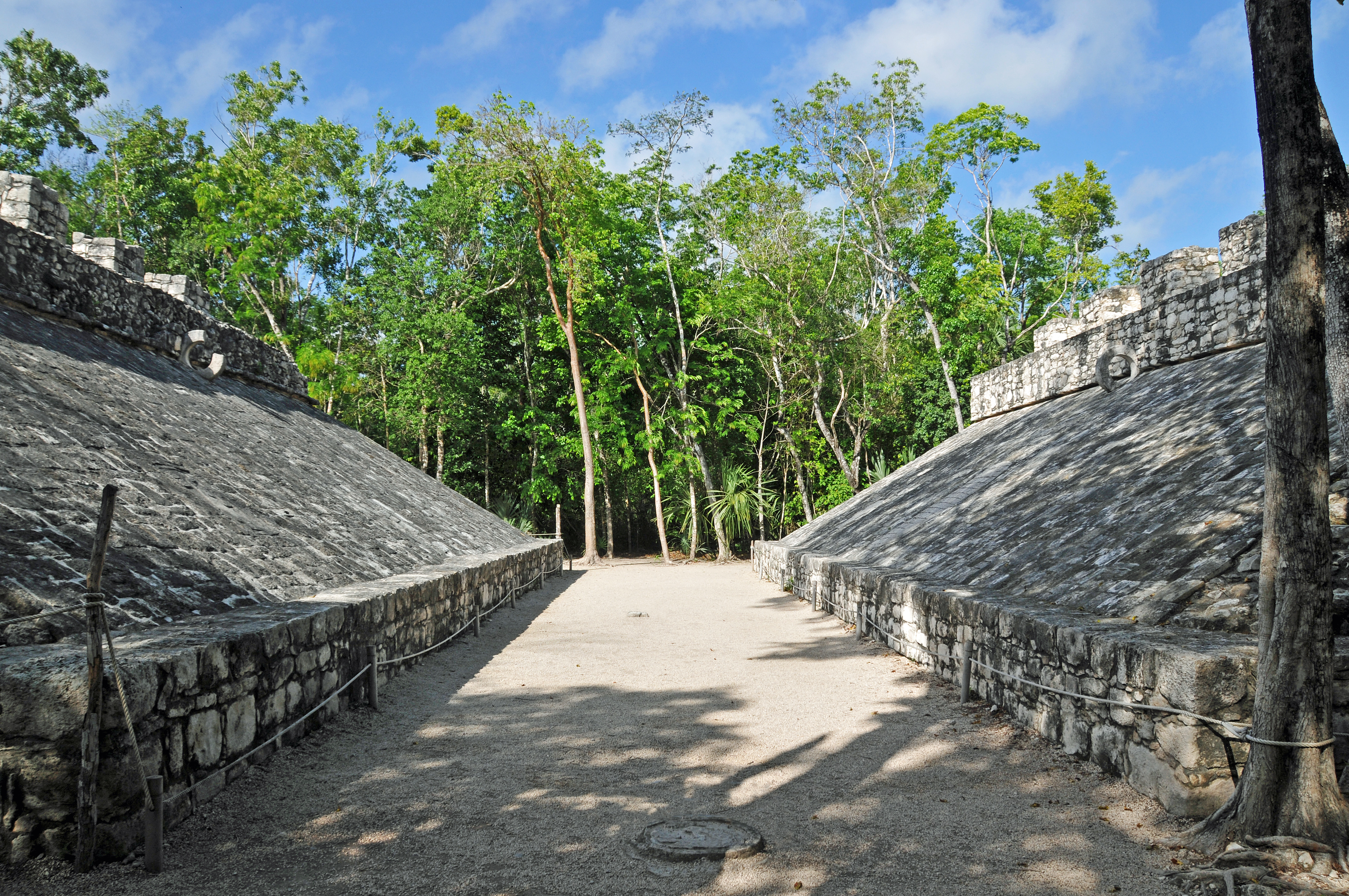 PLEASE, no multi invitations in your comments. DO NOT FEEL YOU HAVE TO COMMENT.Thanks. Chumuc Mul Group Ball Court, is larger than the one near the entrance to the site in Group B. There is a carving of a human skull marking the center of the playing surface, but why it is there is a mystery to me as it is not at any other ball court I have visited.